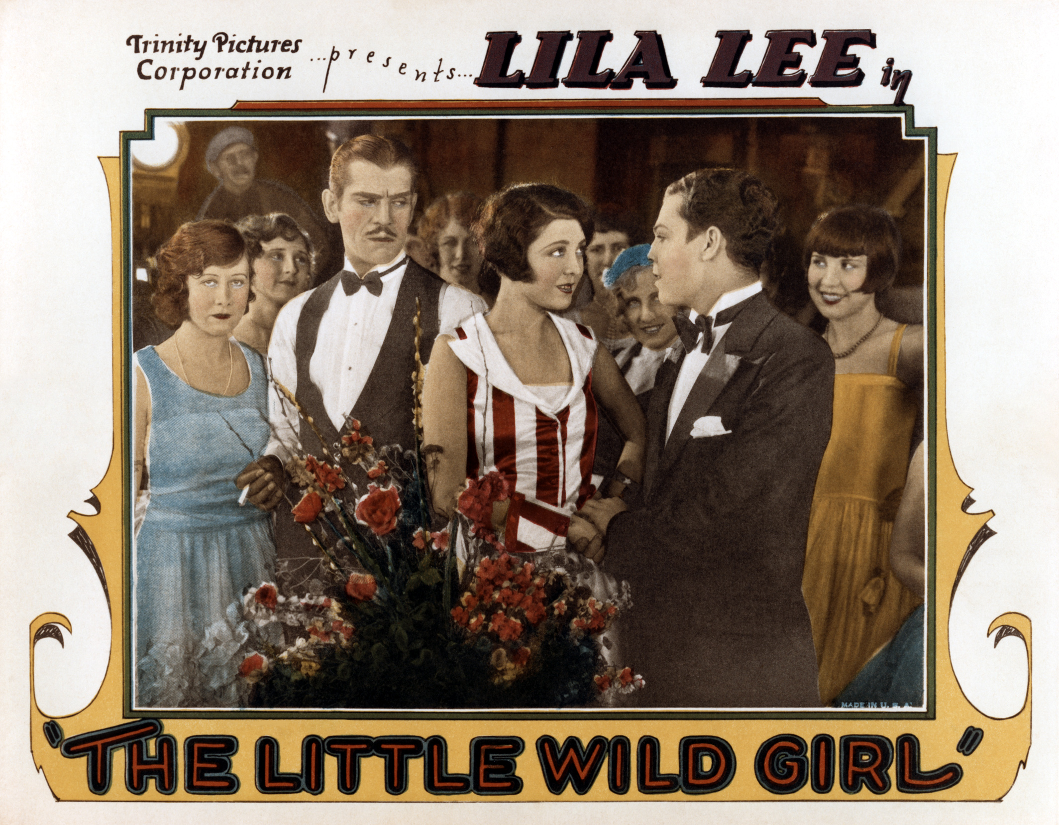 Poster for the 1929 film The Little Wild Girl